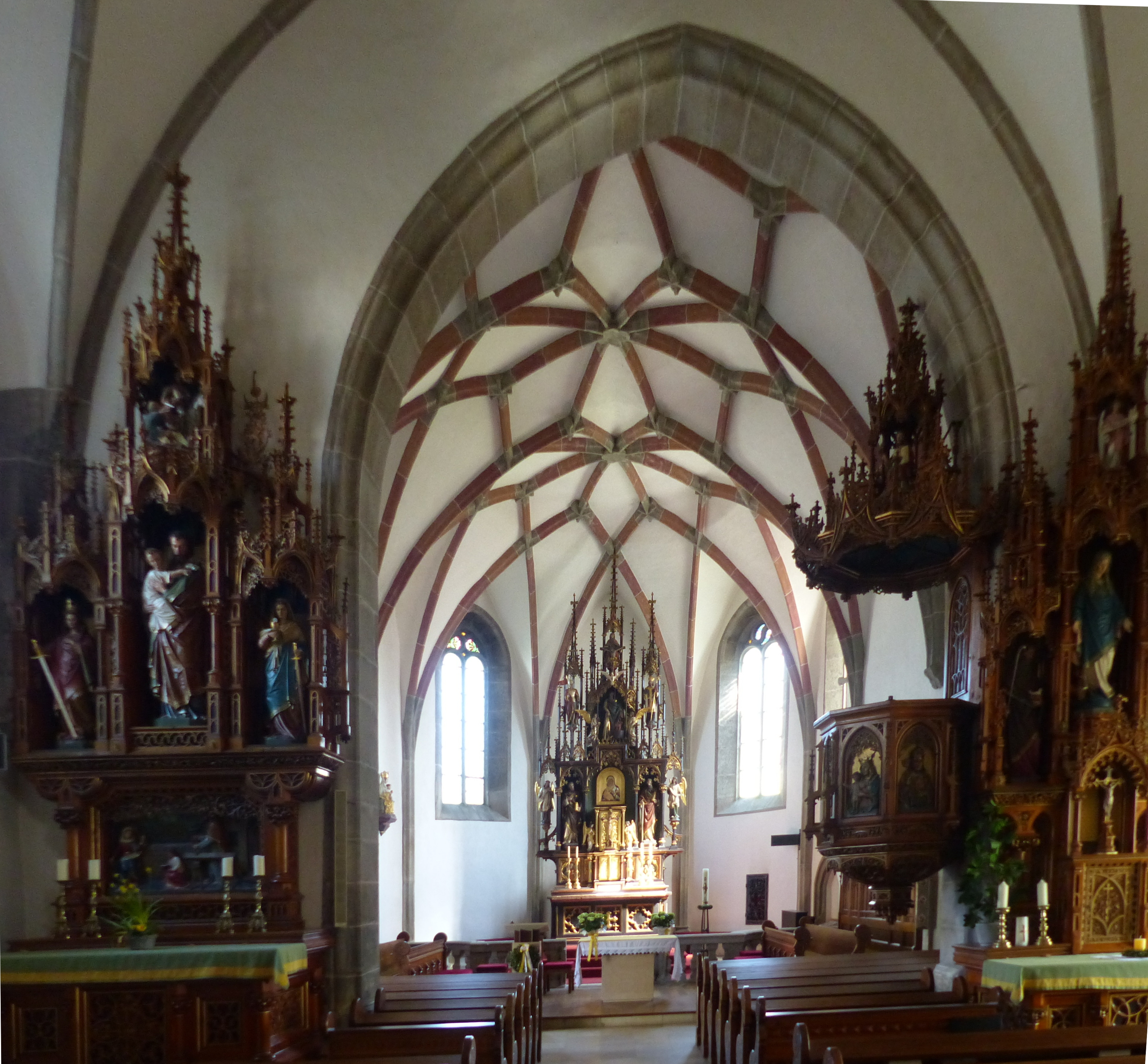 St.Veit im Mühlkreis ( Upper Austria ). Saint Vitus parish church - Interior.